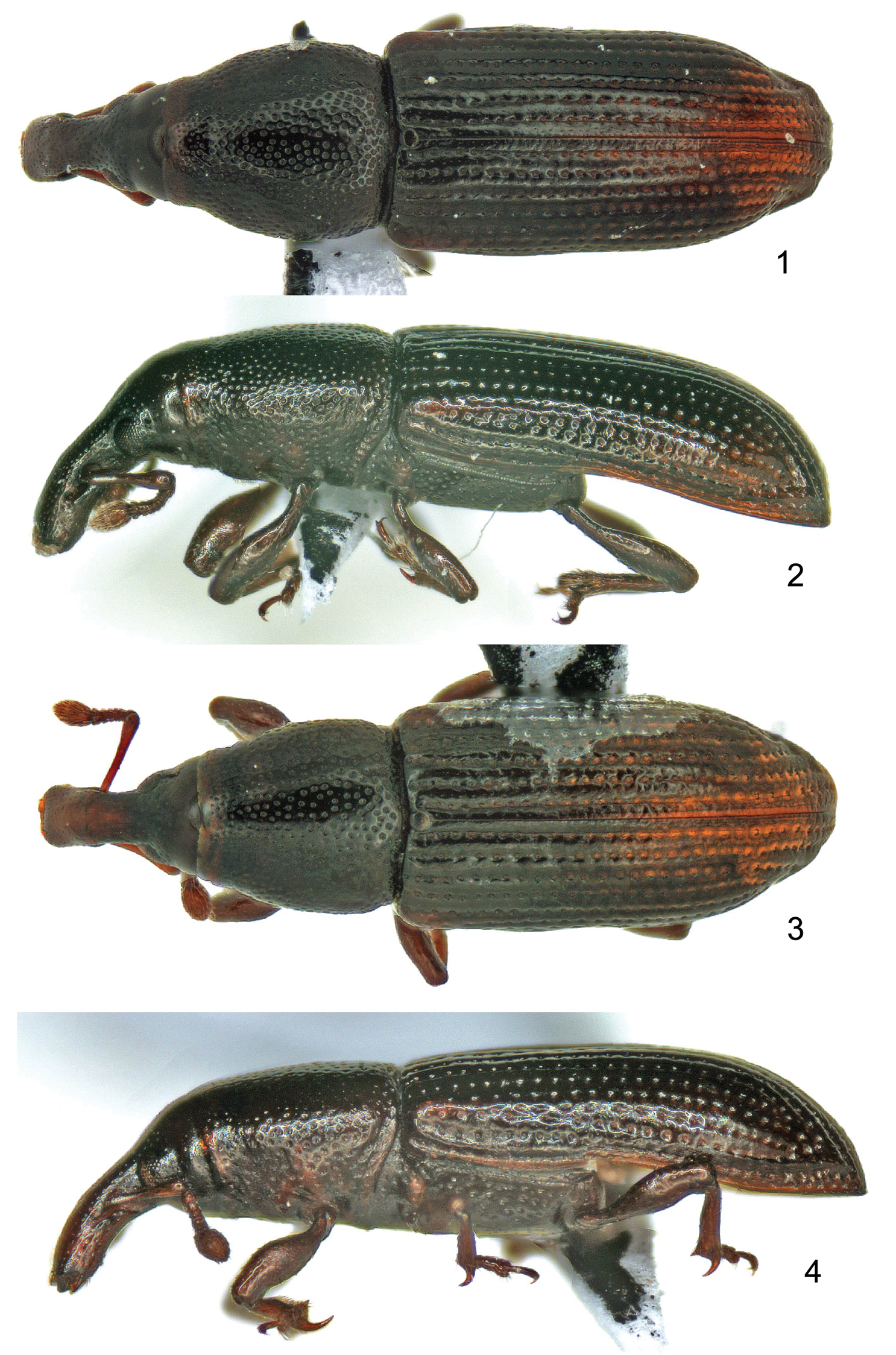 Orthotemnus longitarsus habitus. 1: male dorsal aspect, 2: male lateral aspect, 3: female dorsal aspect, 4: female lateral aspect.